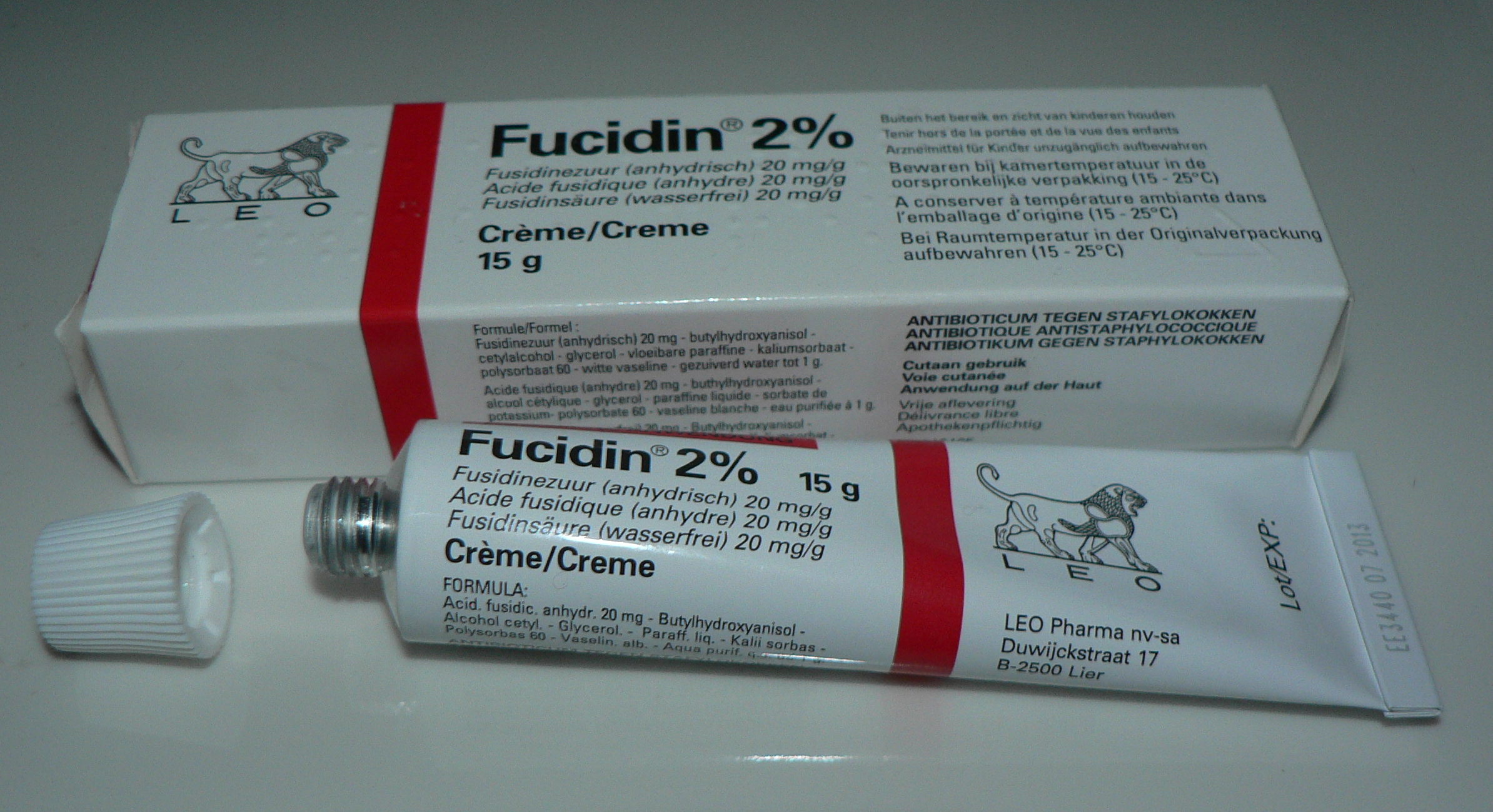 antibacterial ointment containing fusidic acid (for external use only)